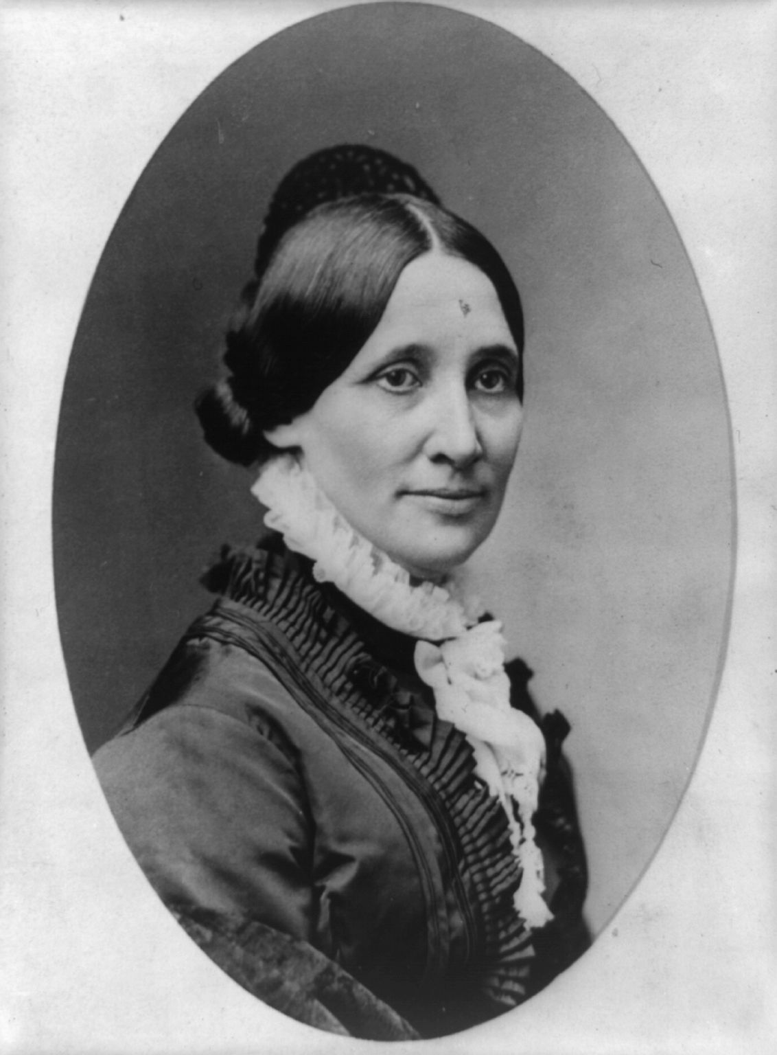 Mrs. Rutherford B. Hayes, head-and-shoulders portrait, facing right